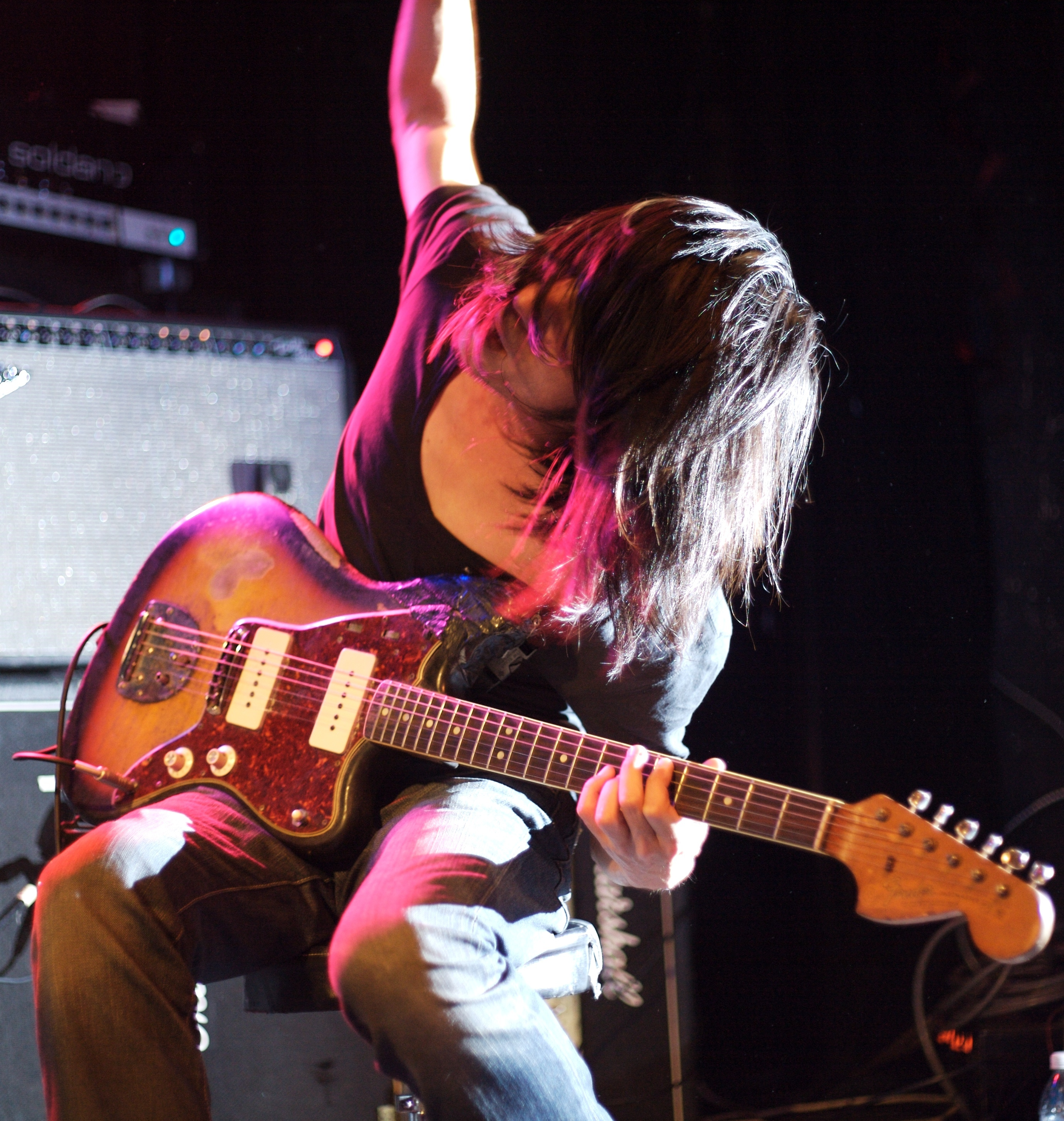 Mono at the Crocodile Cafe in 2007 (Goto)